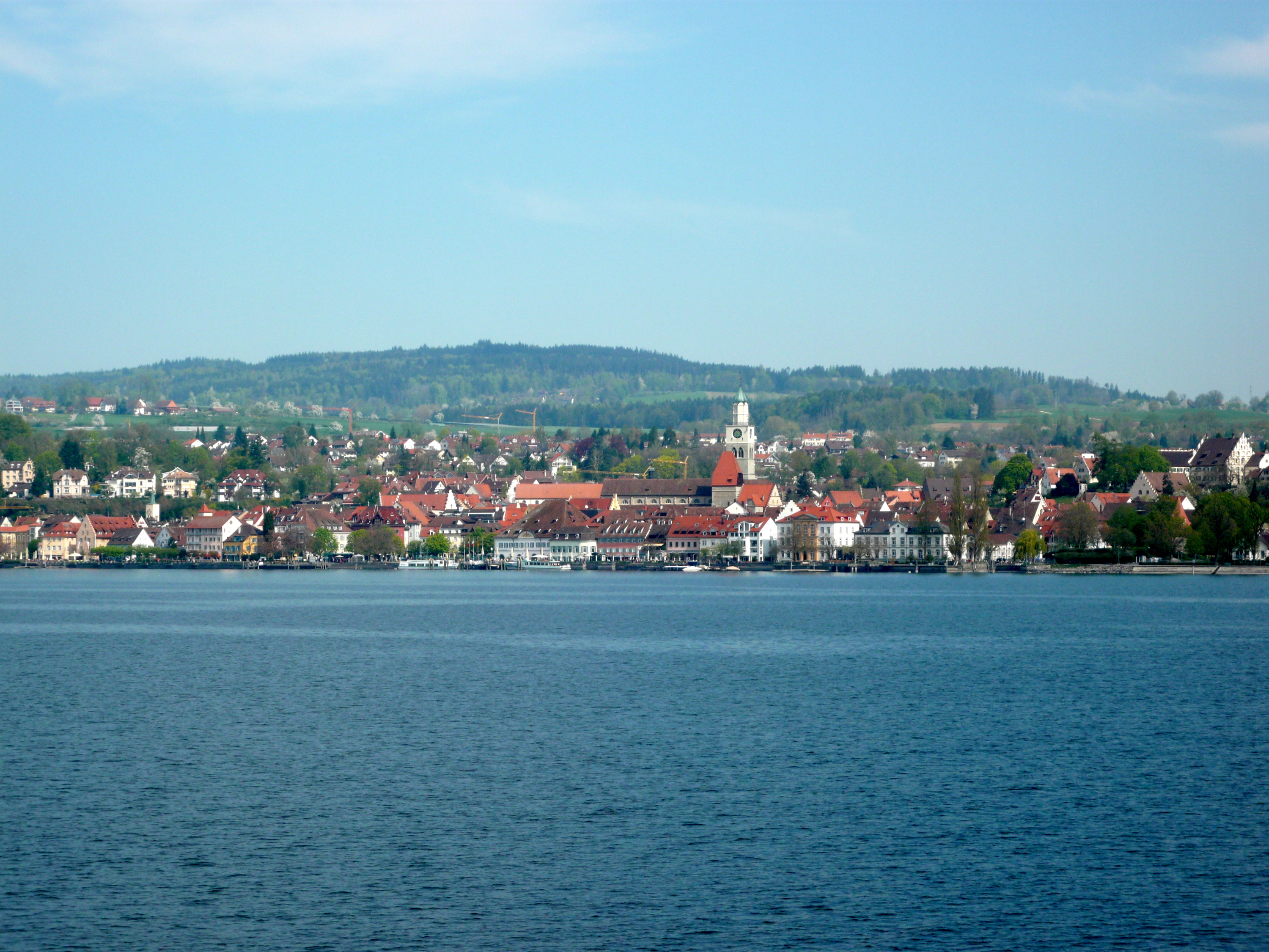 View of Ueberlingen, Bodensee